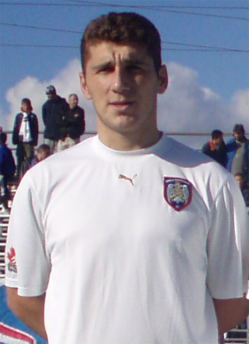 This photo was used in the following places: 1. 2.